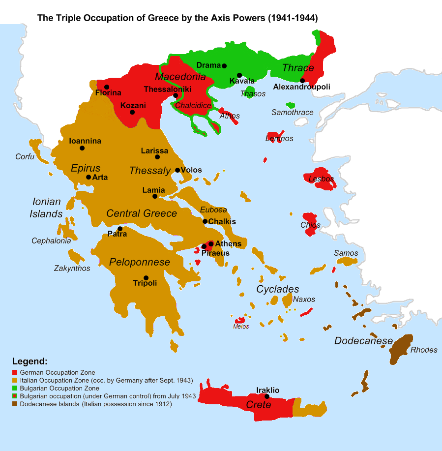 Map of the 1941-1944 Axis Occupation of Greece. Depicted are the three occupation zones, plus the geographic regions and major urban centres.